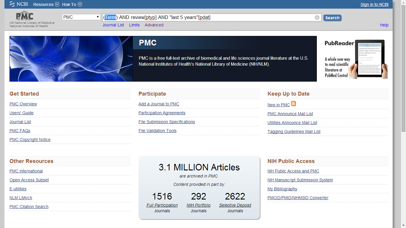 Trying to demonstrate how to search PMC for review articles, this is designed for my talk page, but if you would like to use it feel free.